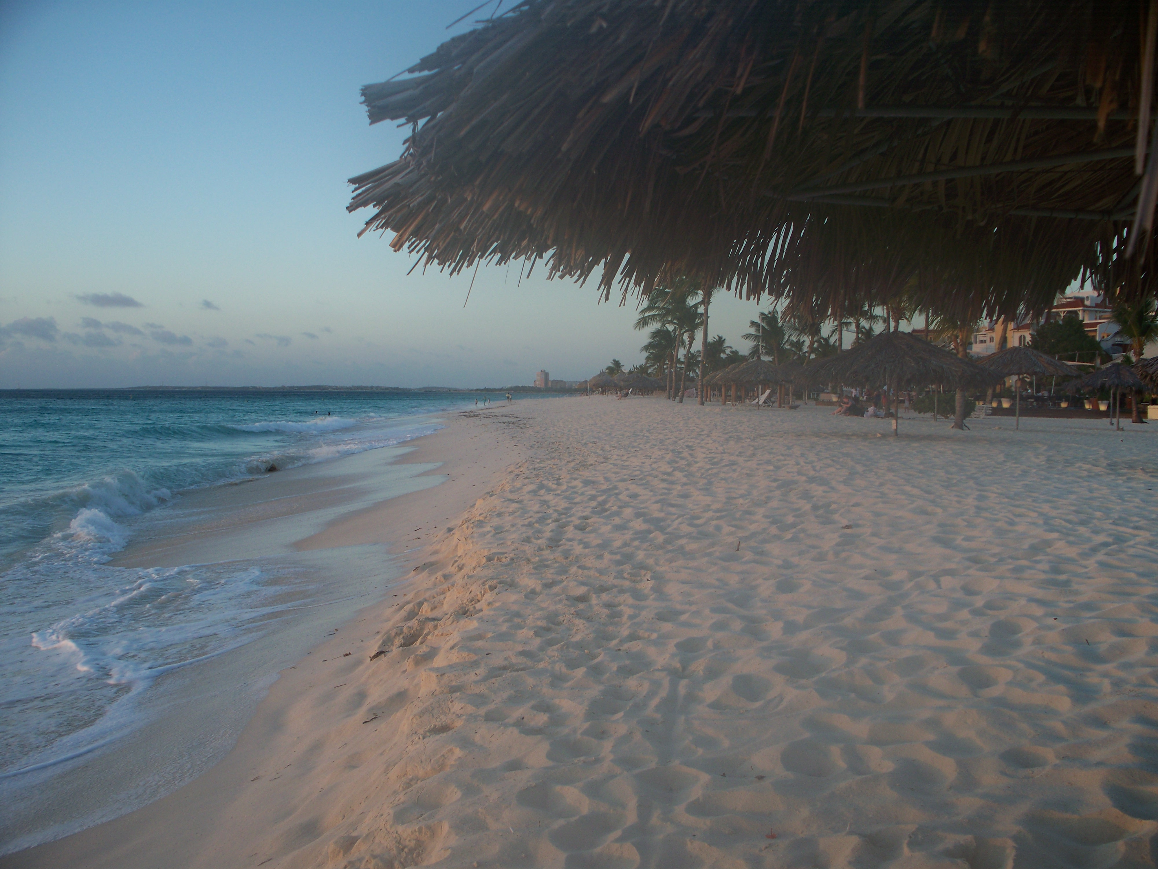 Eagle Beach, Aruba